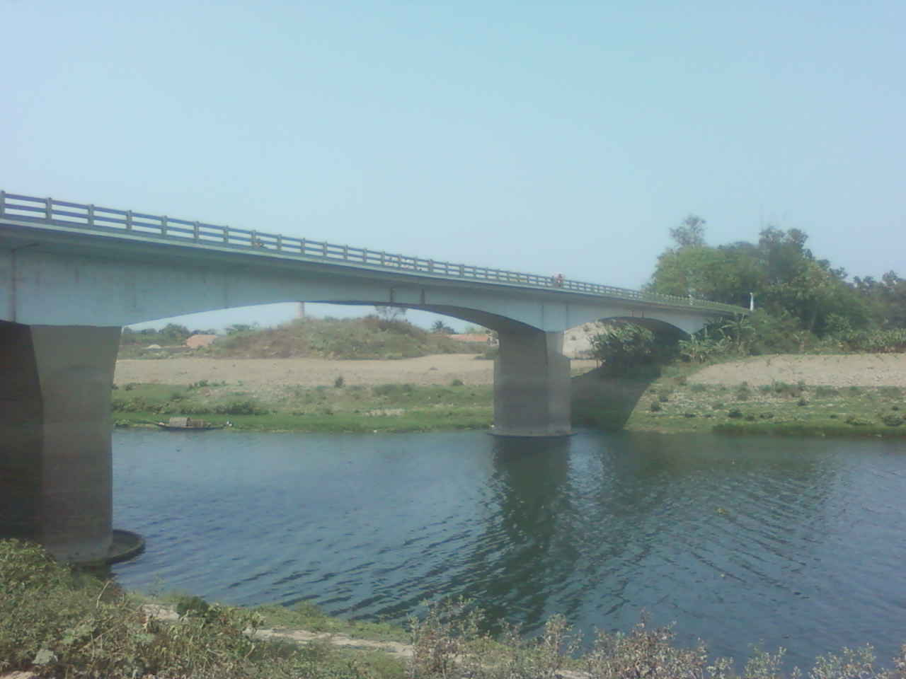 জলঙ্গী নদীর ওপর পলাশীপাড়া দ্বিজেন্দ্রলাল সেতু।